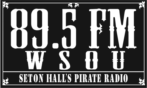 Vintage WSOU logo, 2011